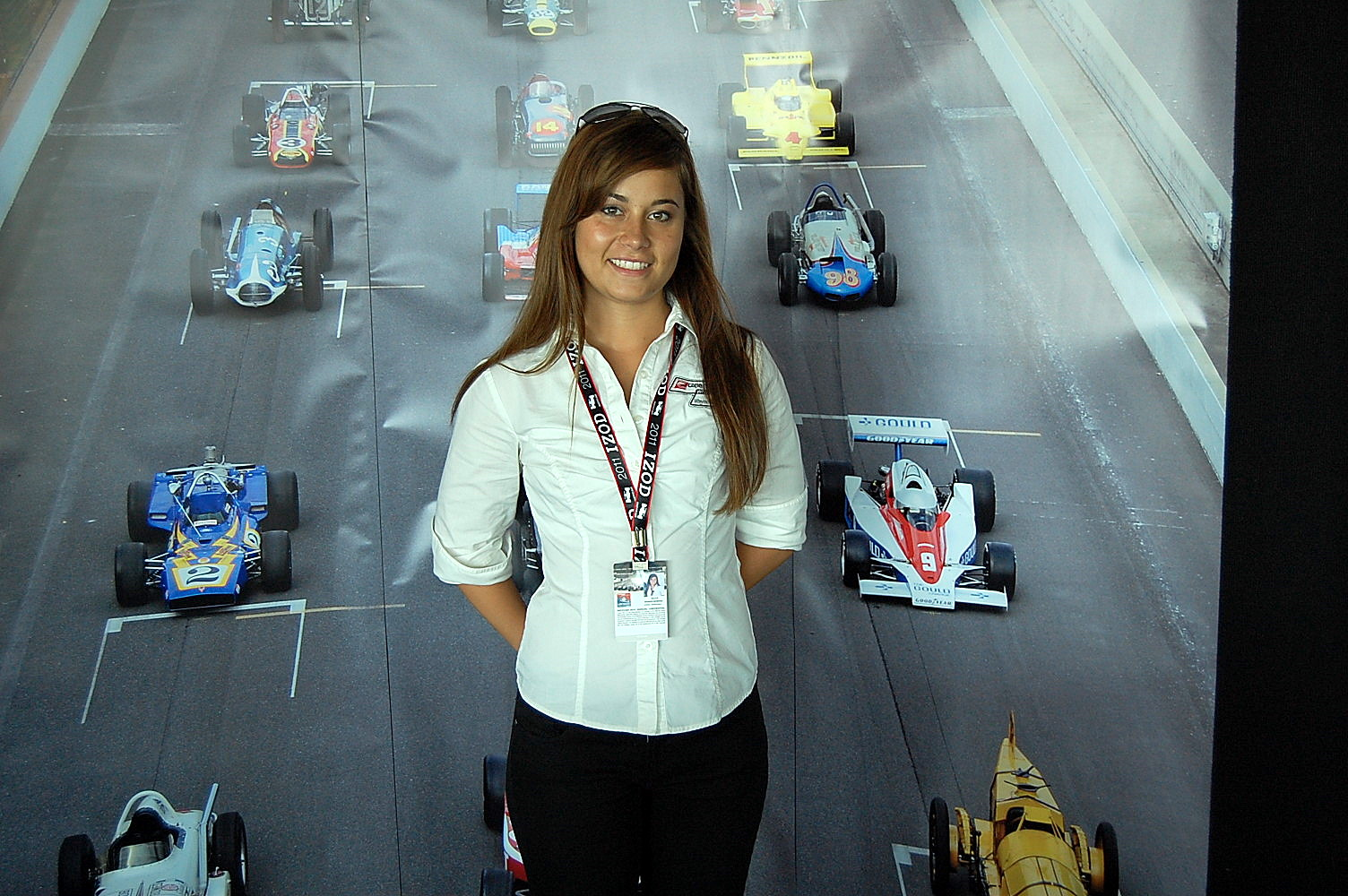 USF 2000 driver Shannon McIntosh.